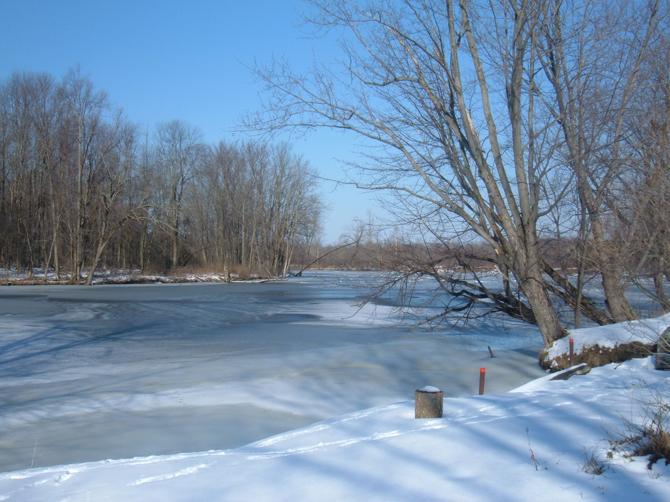 A photo I took of the Oneida River as viewed from my backyard in Clay, NY. - Michael Bergin 01/28/2006